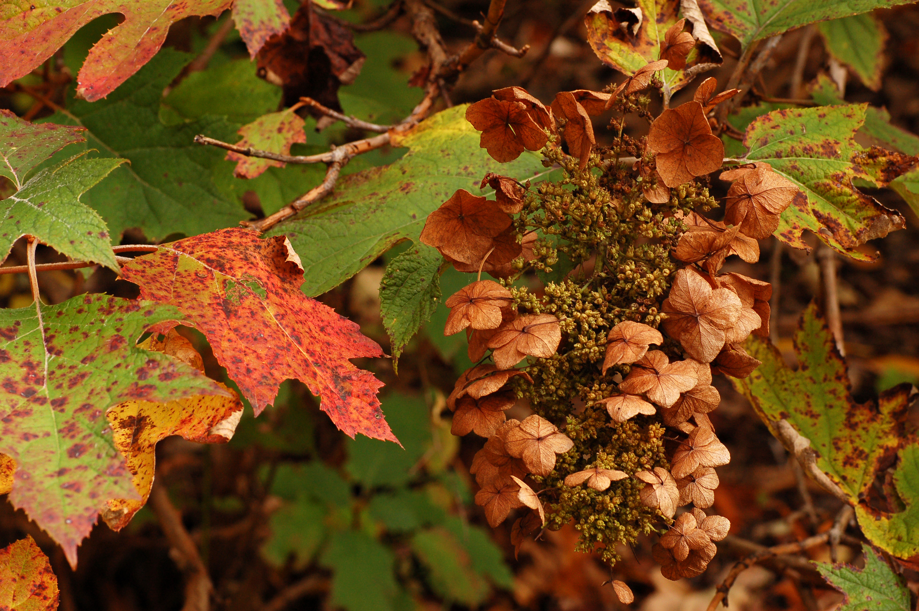 Picture of Oakleaf Hydrangeaen Hydrangea quercifolia en showing its fall colors. Photo taken at the Chanticleer Garden where it was identified.